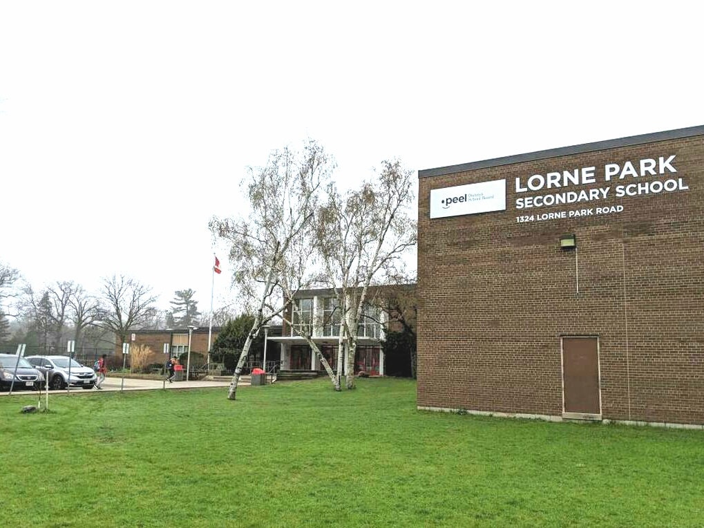 The Lorne Park Secondary School front entrance during lunch break. Students can be seen walking away from to school.